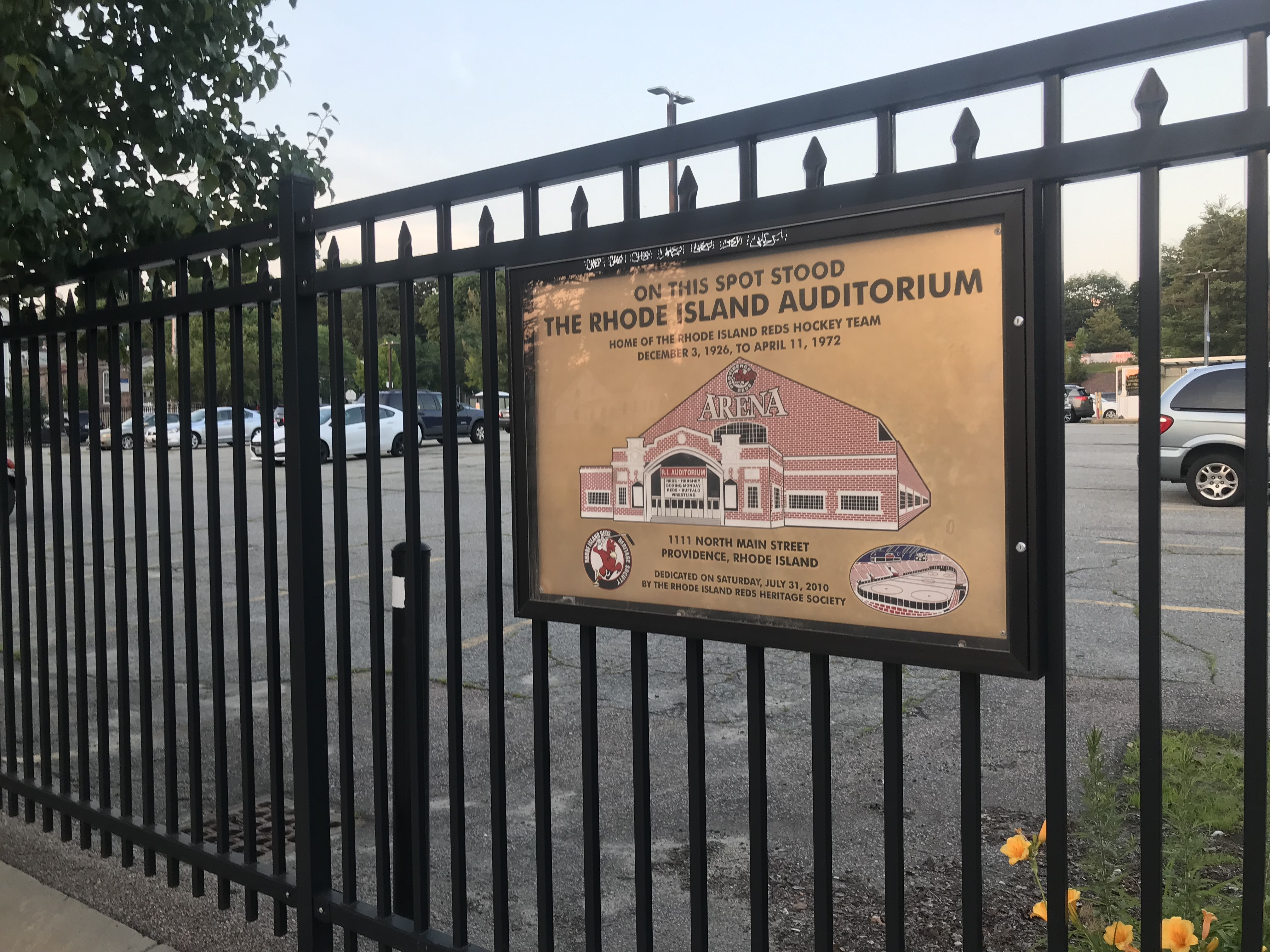 Plaque commemorating the former site of the Rhode Island Auditorium. It reads: “On this spot stood the Rhode Island Auditorium, home of the Rhode Island Reds hockey team, December 3, 1926 to April 11, 1972. 1111 North Main Street, Providence, Rhode Island. Dedicatedd on Saturday, July 31, 2010, by the Rhode Island Reds Heritage Society.”